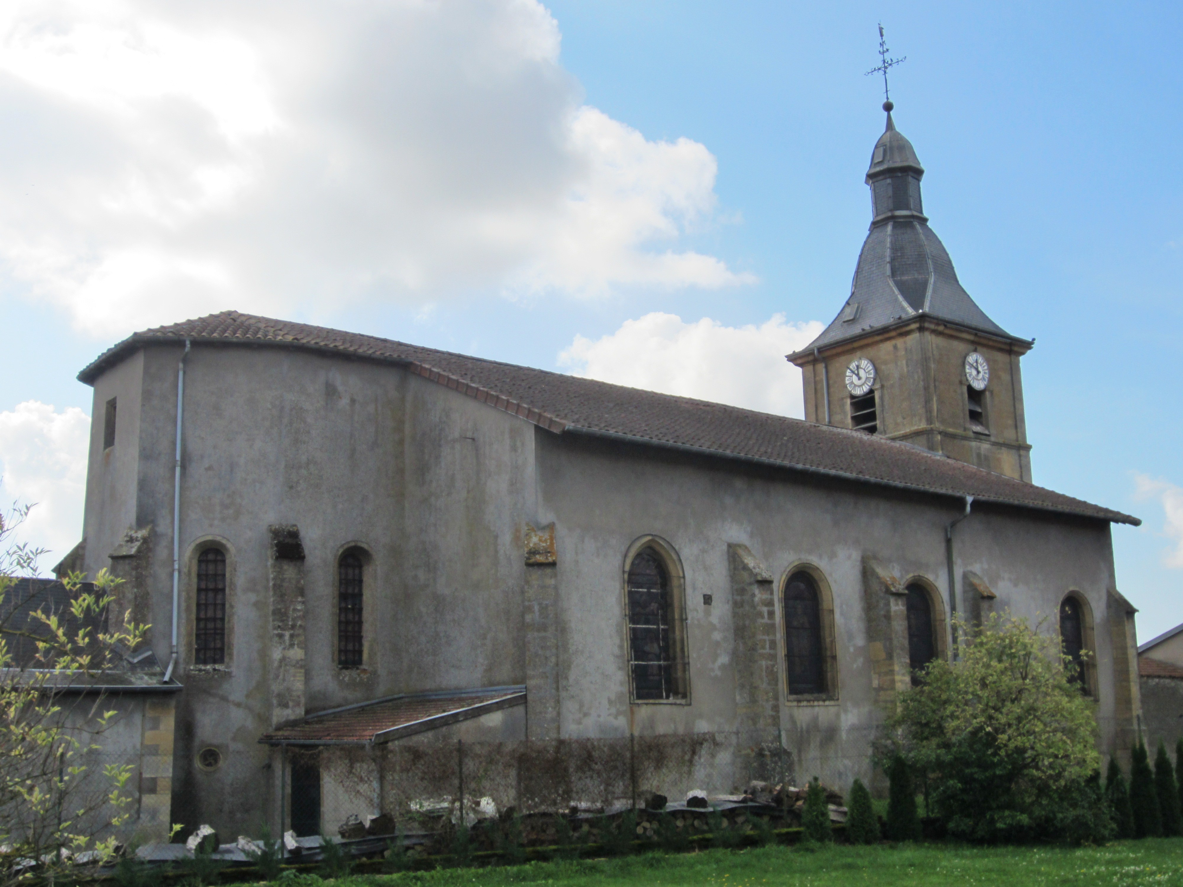 eglise Mercy Bas